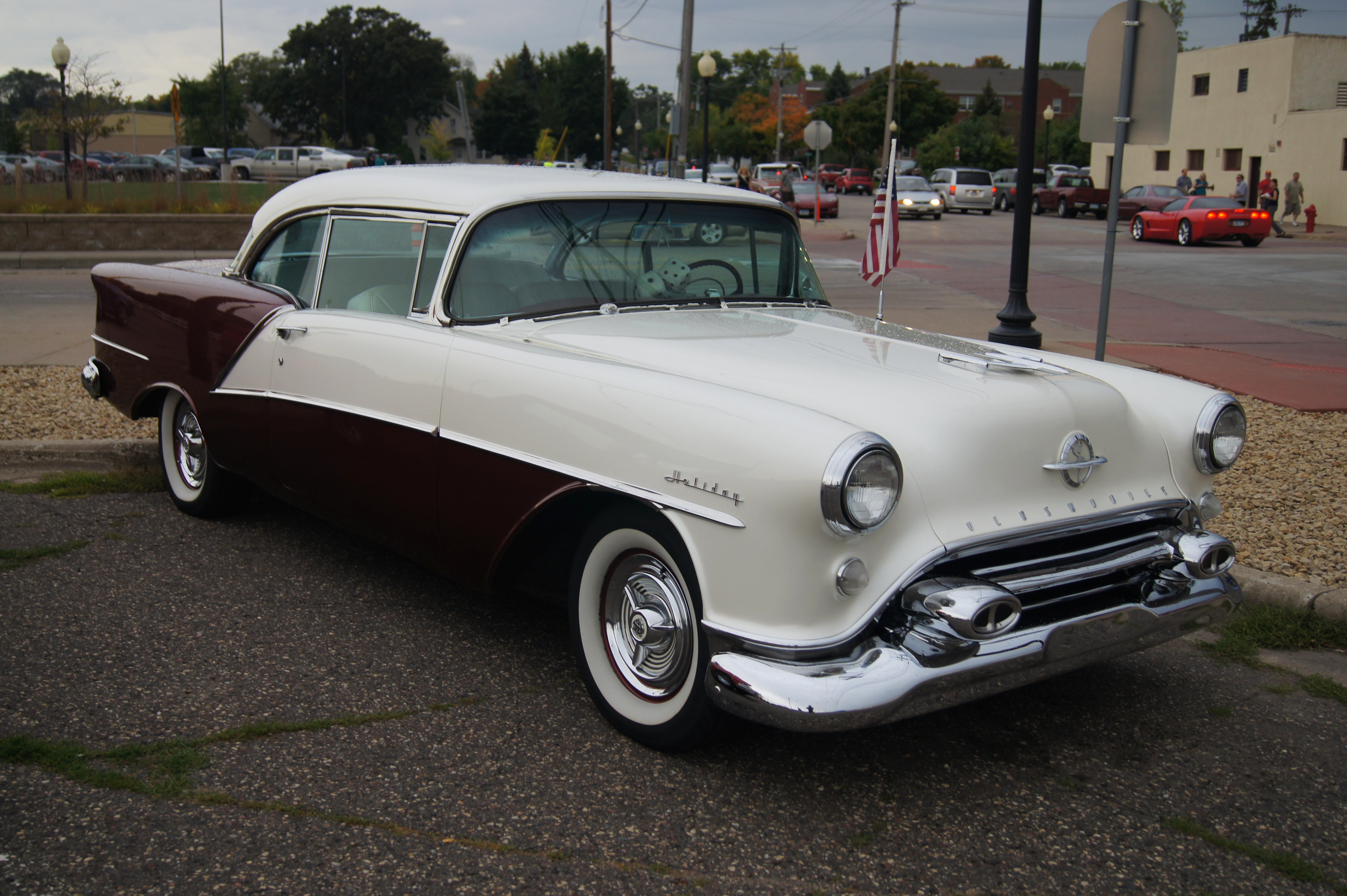 9th Annual Saturday Night Cruise-In September 20,2014 Hastings, Minnesota My second time to this event and the second time I got rained on. It was nice before and after the rain though. I did miss quite a few great cars that left before I could capture them, including a white 1962 Imperial that I caught a glimpse of at "Back to the 50's" More of my car pictures at my Flickr site